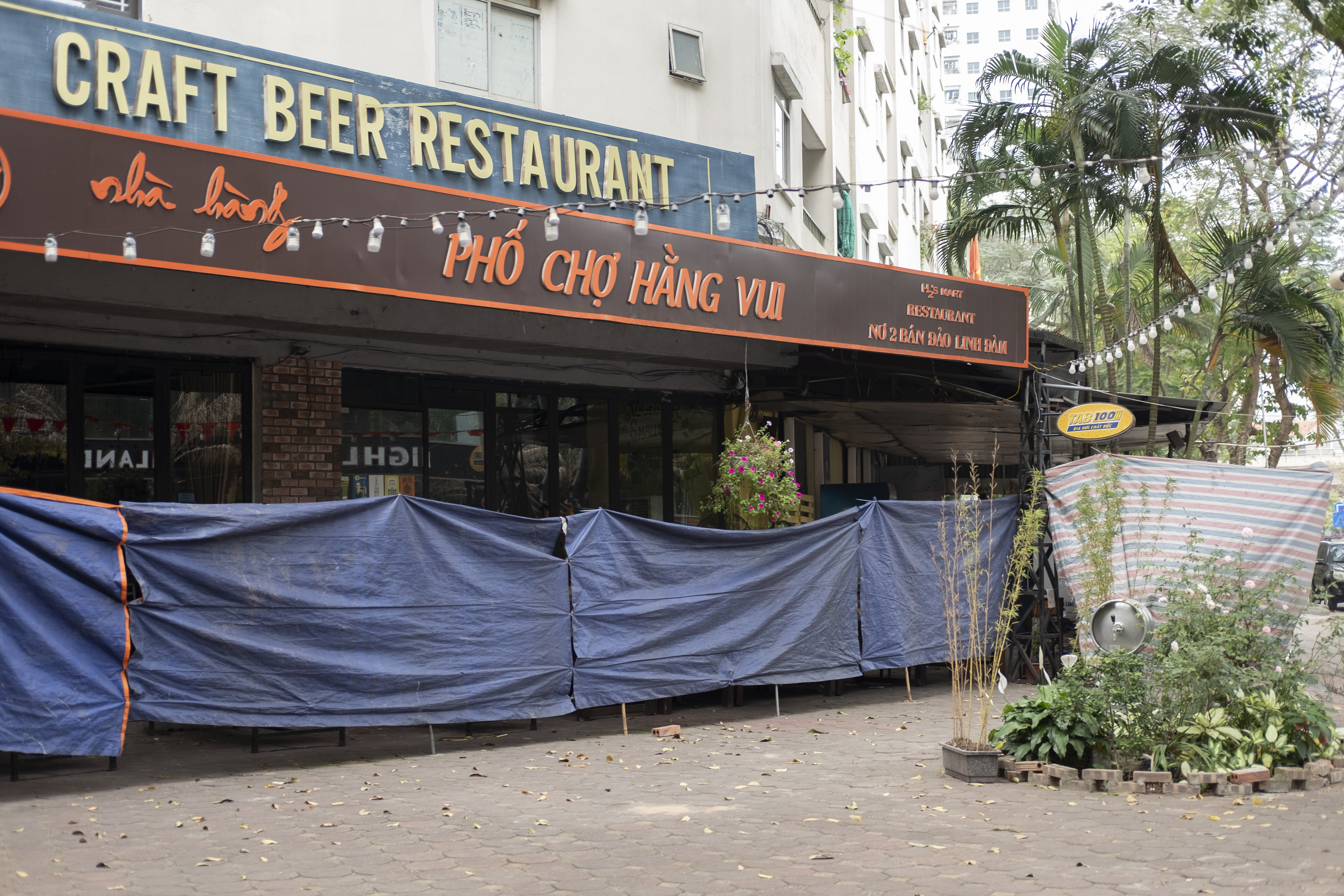 Phố Chợ Hằng Vui, Hà Nội.